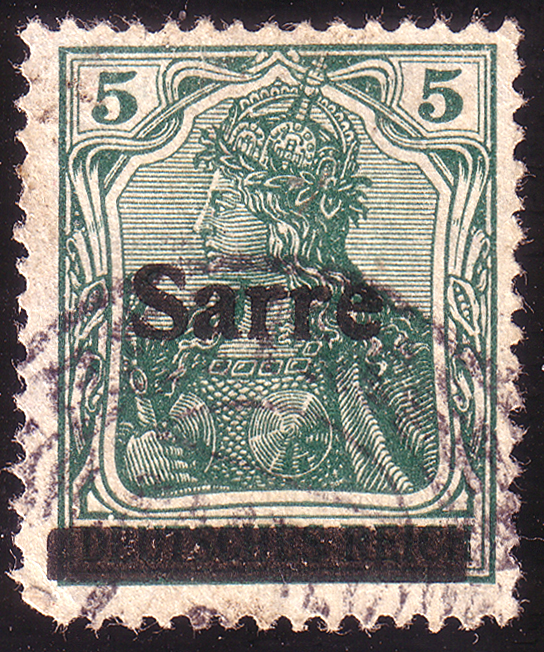 Postage stamp for Saar, 5 pfennigs, 1920